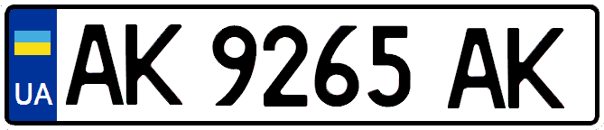 License plates of Ukraine